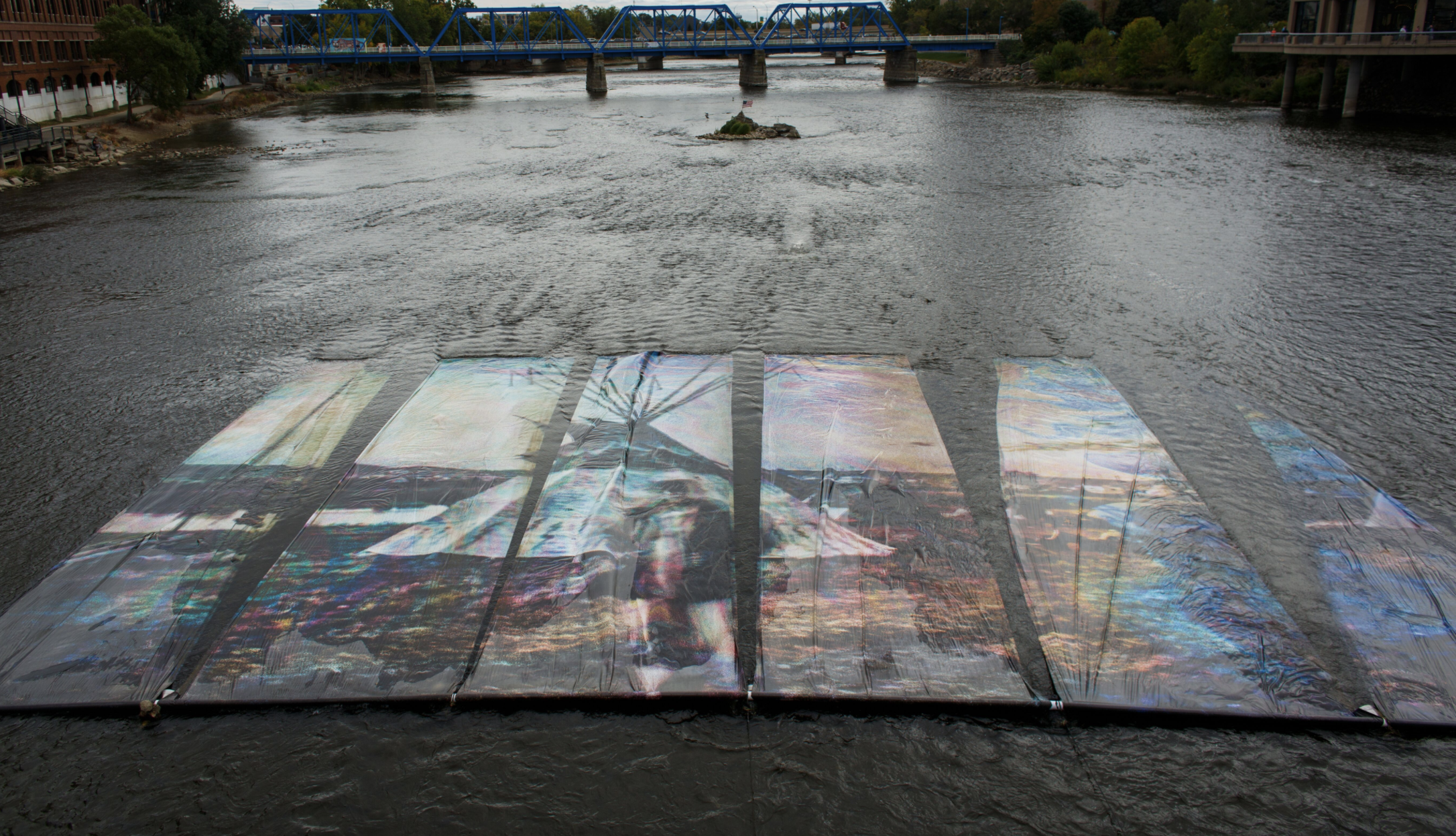 Colorful canvas floating in water.